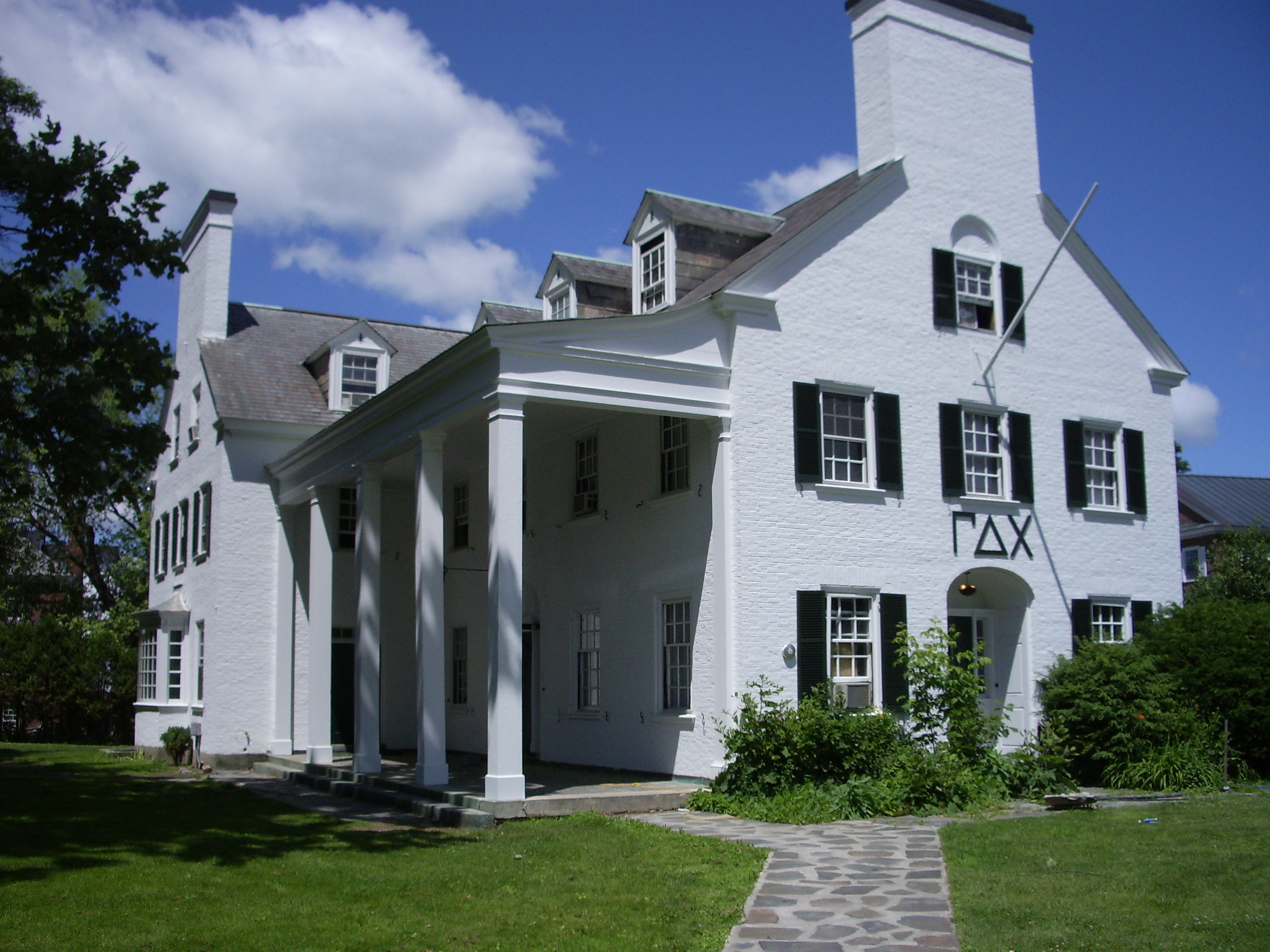 Photograph of Gamma Delta Chi at the campus of Dartmouth College in Hanover, New Hampshire.